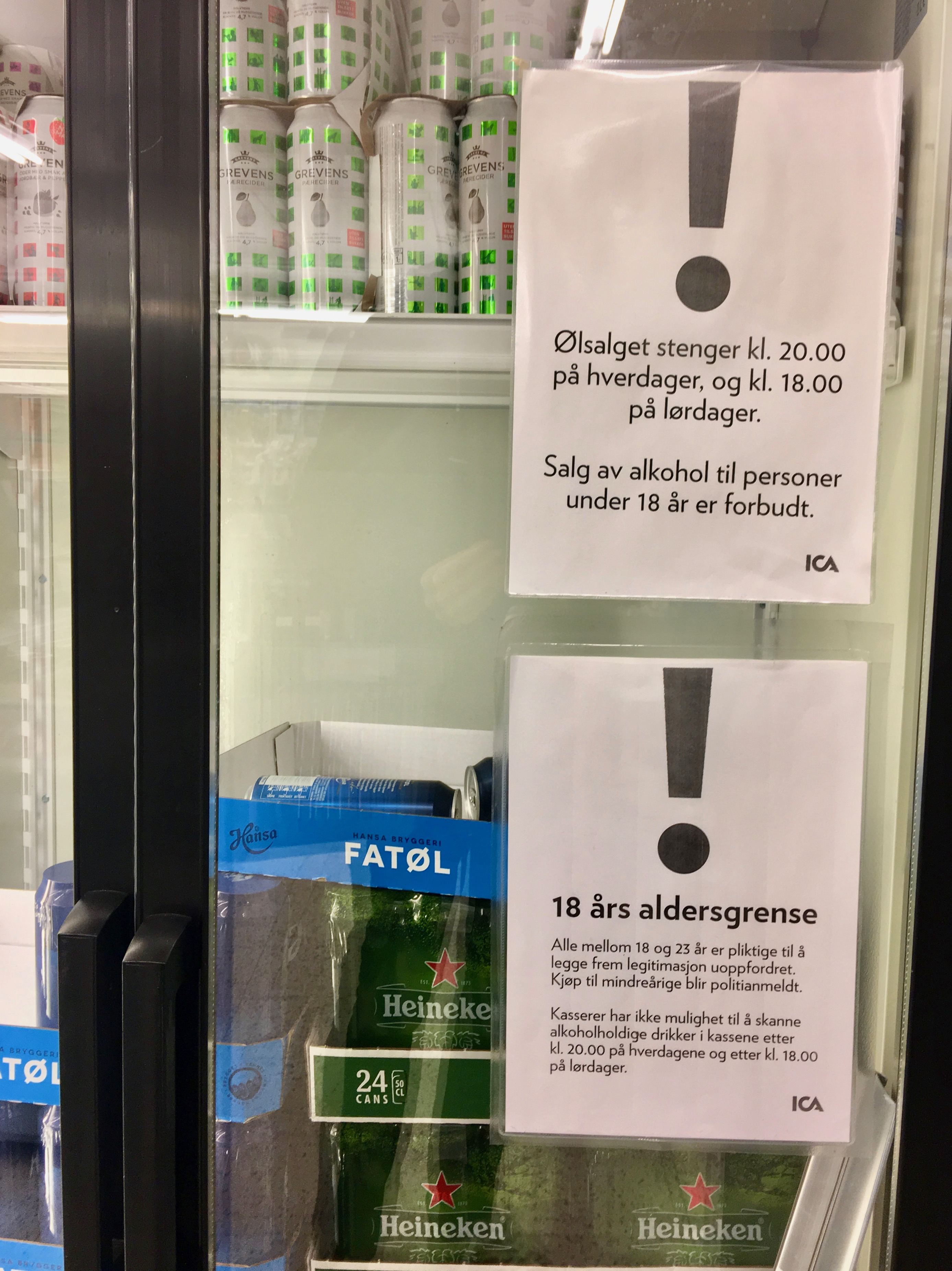 Beer in chiller for sale in ICA supermarket in Leirvik, Stord, Norway, with legal drinking age and shopping hours signs.(Ølsalg av Hansa fatøl, Heineken, og Grevens pærecider. Oppslag for salgstider og 18 års aldersgrense). Photo 2018-03-07.